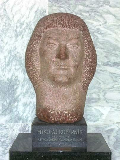 Bust of Nicolaus Copernicus (Polish:Mikołaja Kopernika) permanently displayed near the entrance to the Dag Hammarskjöld Library at the United Nations Headquarters in New York City. The bust is a gift of the Polish People's Republic (1970) to the United Nations. Photograph credit: Roderick Santos.